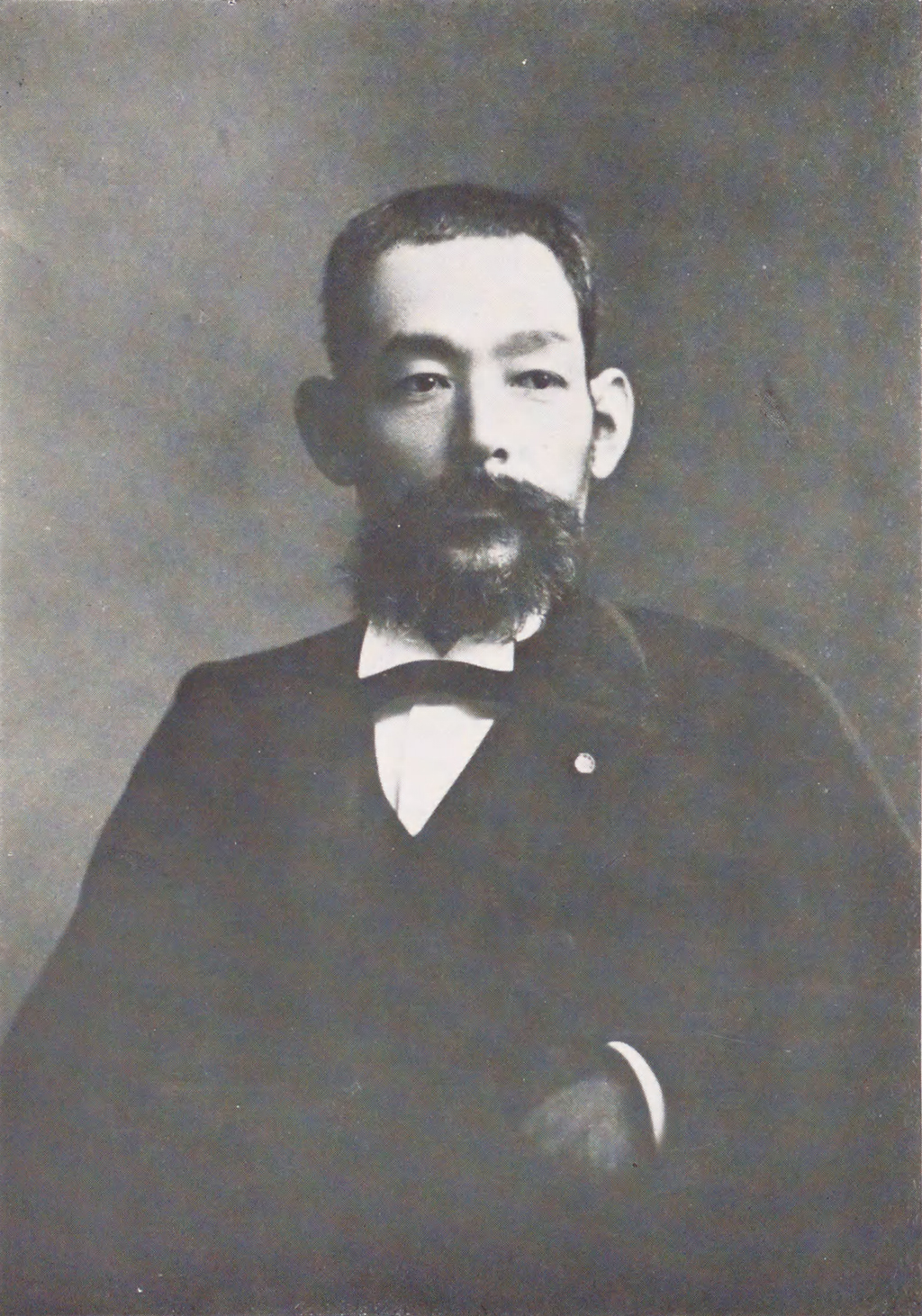 Tomii Masaakira (circa 1908).